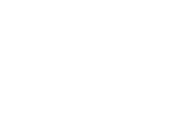 A depiction of the Invisible Pink Unicorn.